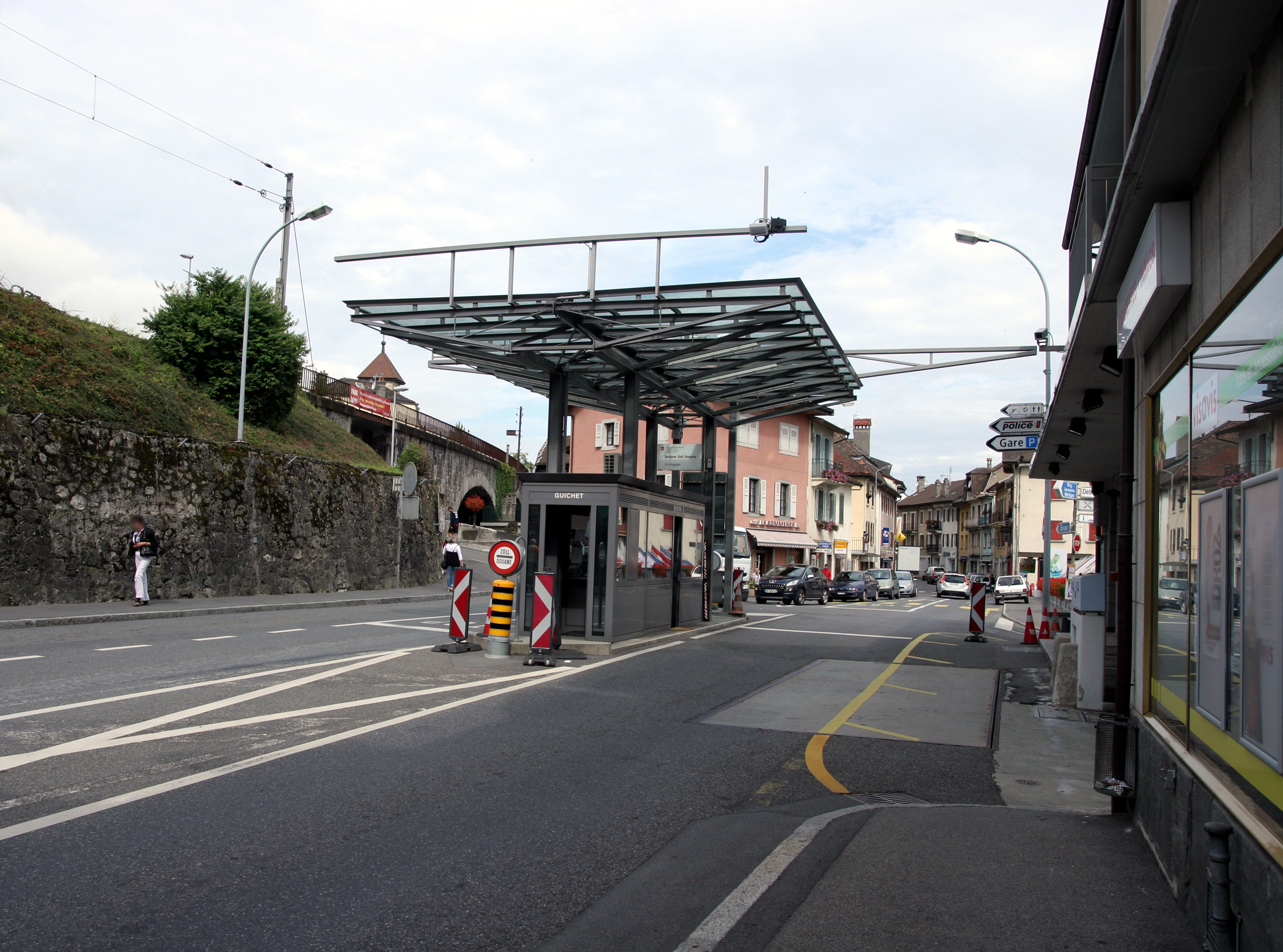 The checkpoint in Saint Gingolph. View from Swiss site to the French one.